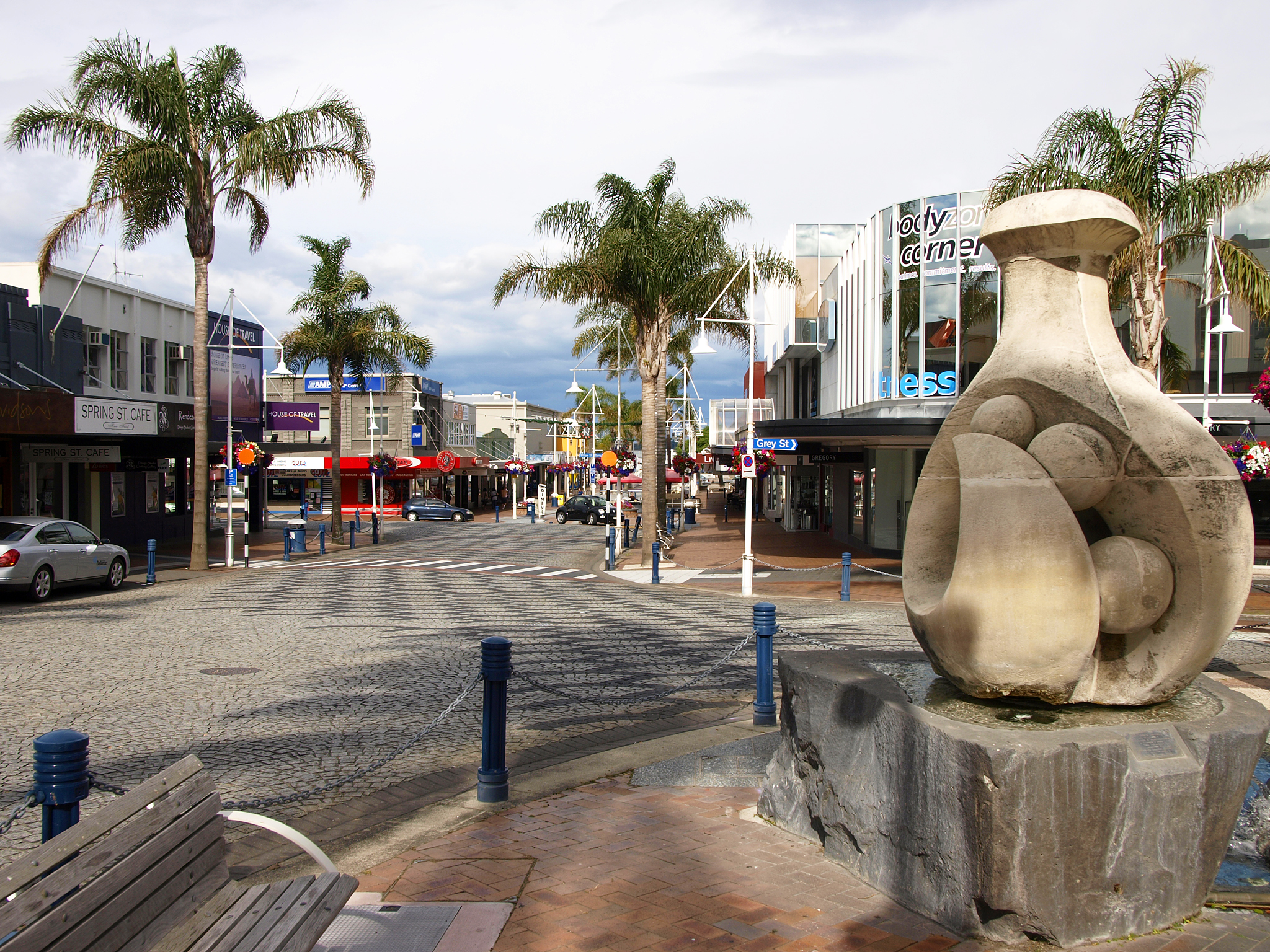 Tauranga City, Corner Grey St, Bay of Plenty, North Island, New Zealand